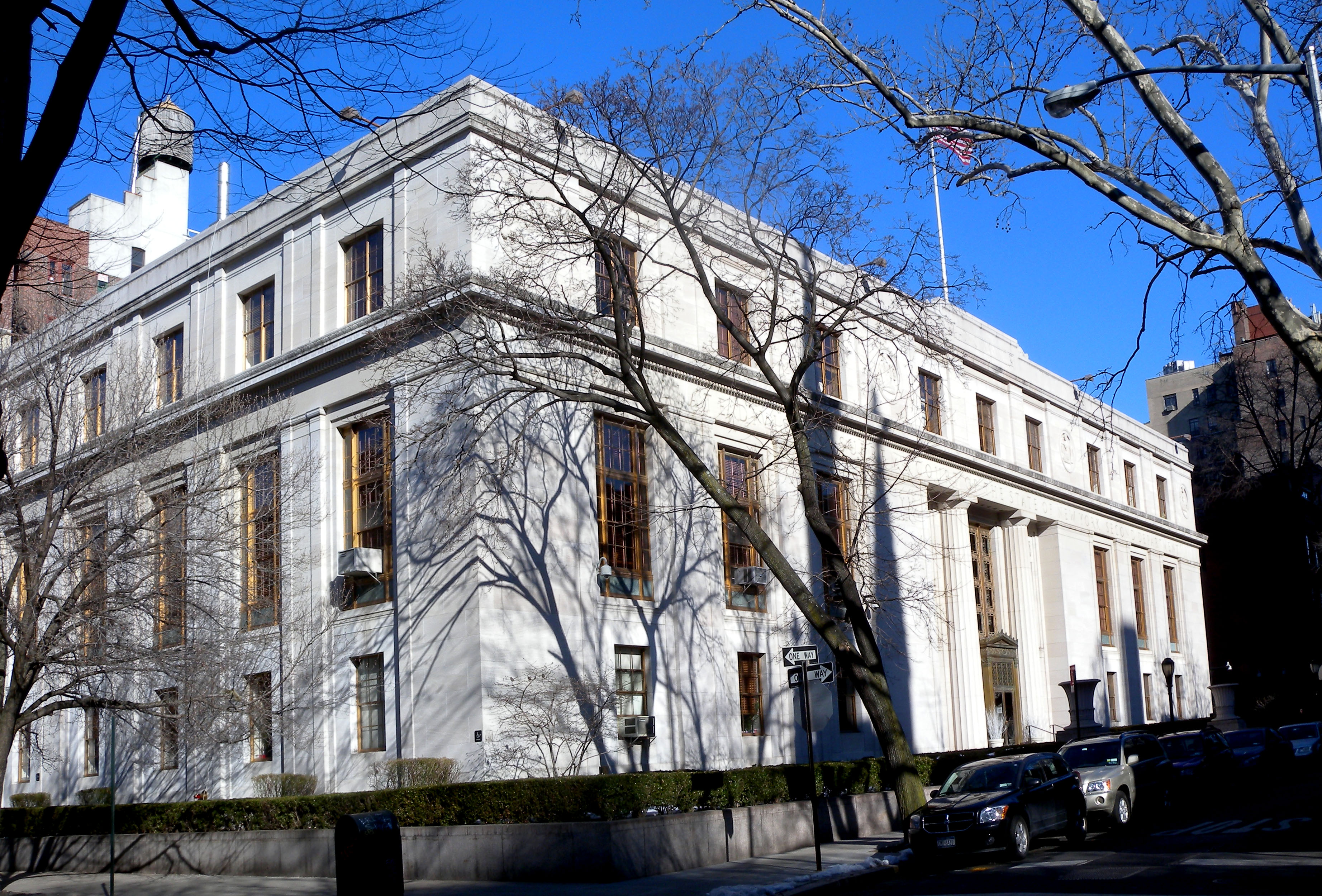 Looking northwest across Pierrepont Street and the foot of Monroe at New York Supreme Court; Second Division on a sunny morning.